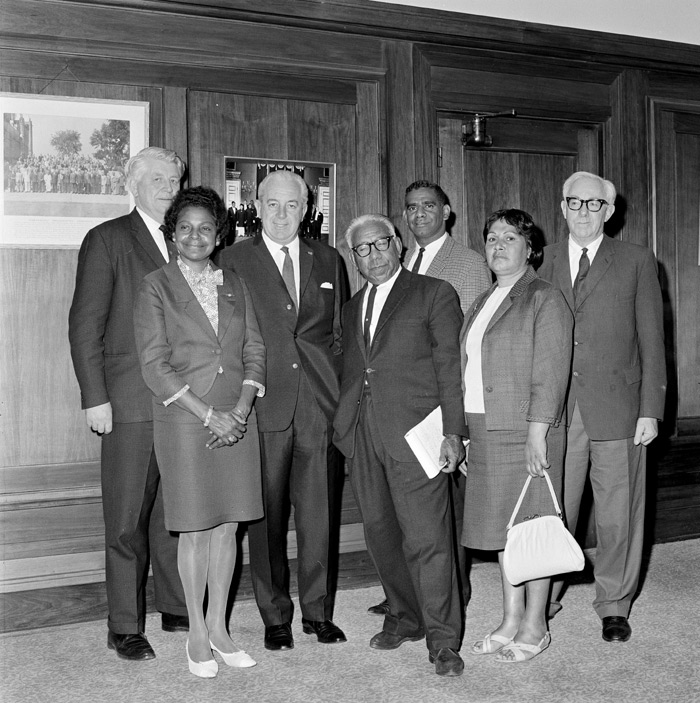 Harold Holt and two government MPs meeting with representatives of the Federal Council for the Advancement of Aborigines and Torres Strait Islanders (FCAATSI) – from left to right: Gordon Bryant, Faith Bandler, Harold Holt, Doug Nicholls, Burnum Burnum, Winnie Branson, and Bill Wentworth.